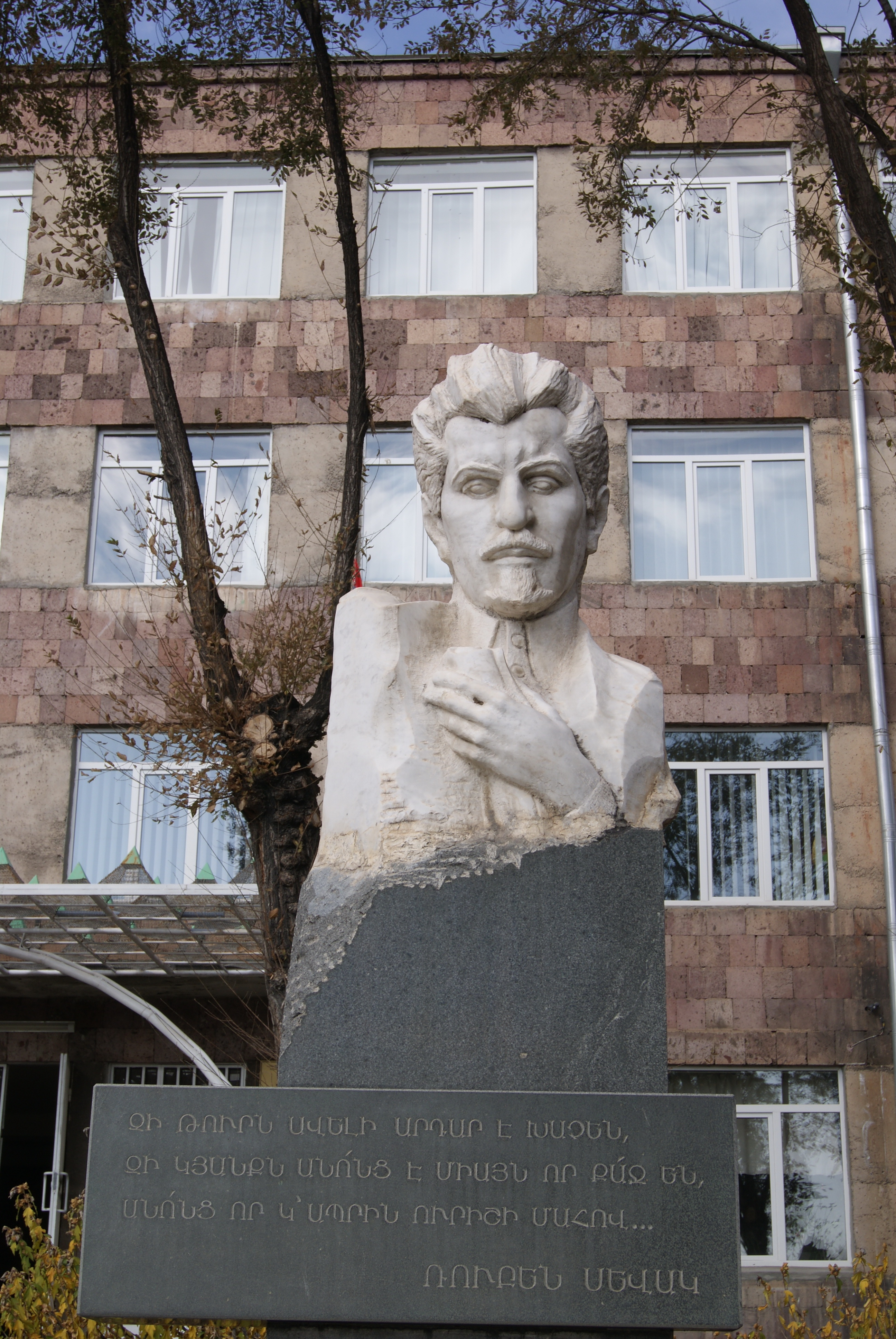 Ruben Sevak bust